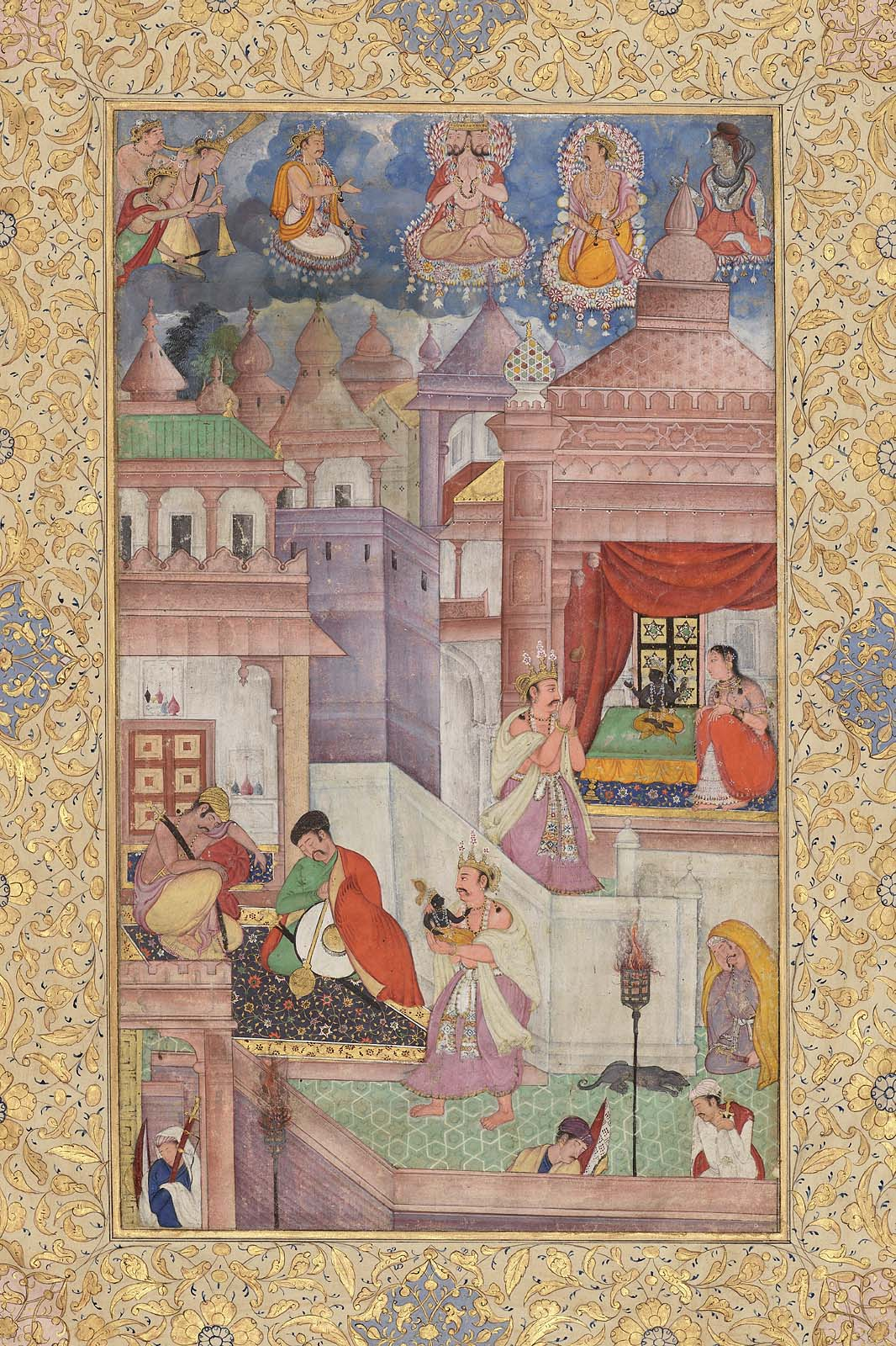 From VMPA museum